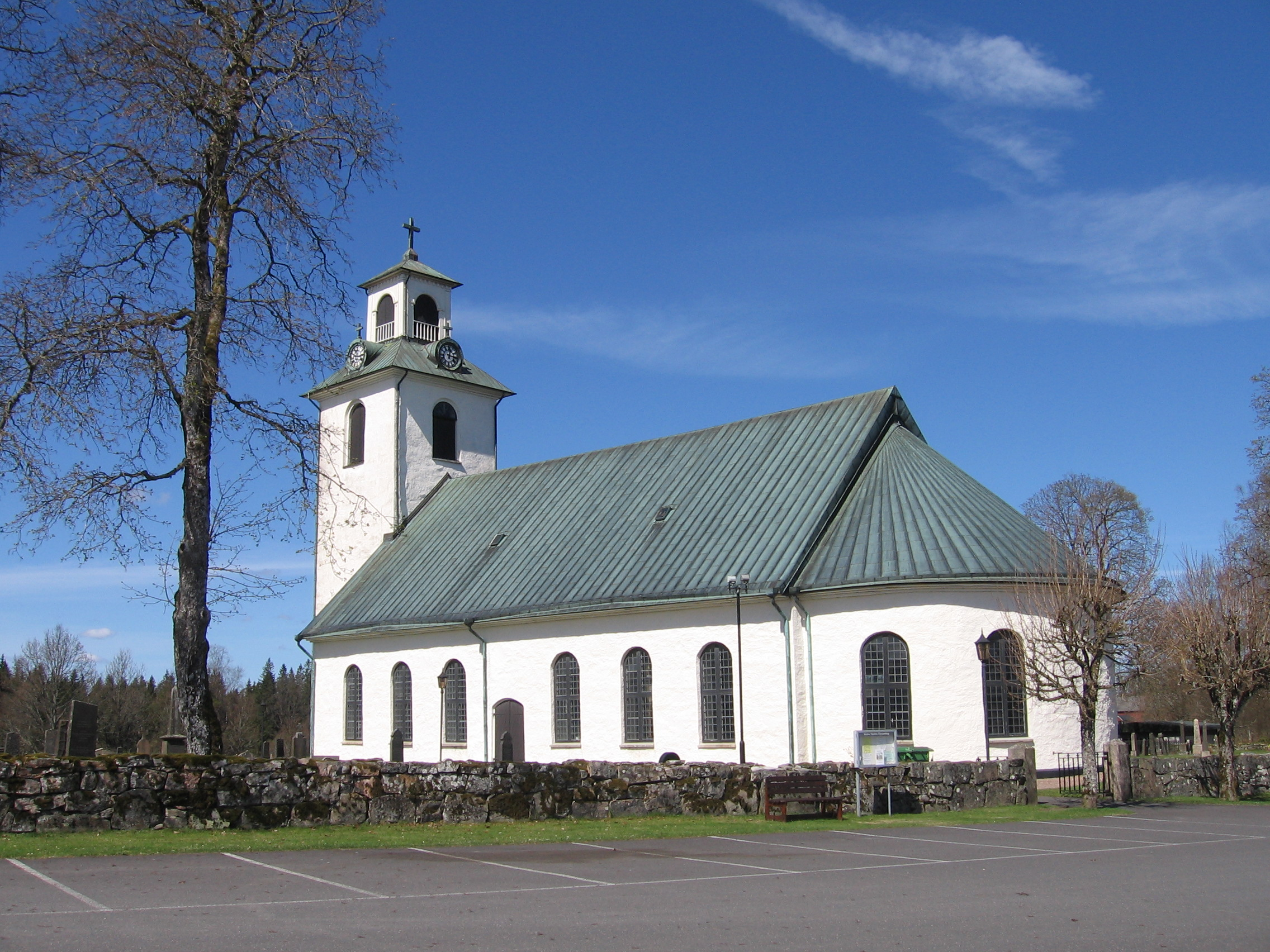 The church Södra Hestra 2013